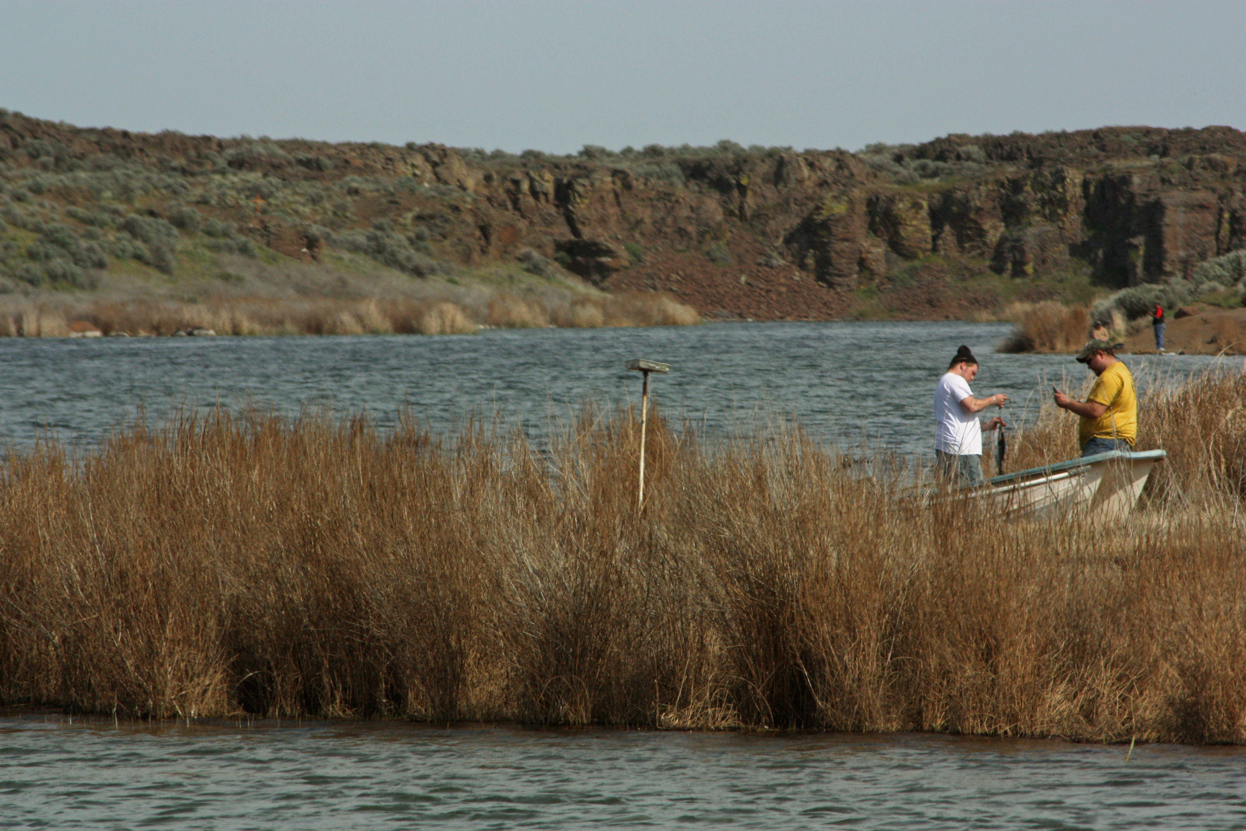 Quincy Lake (359 m; 1178 feet); trout fishing